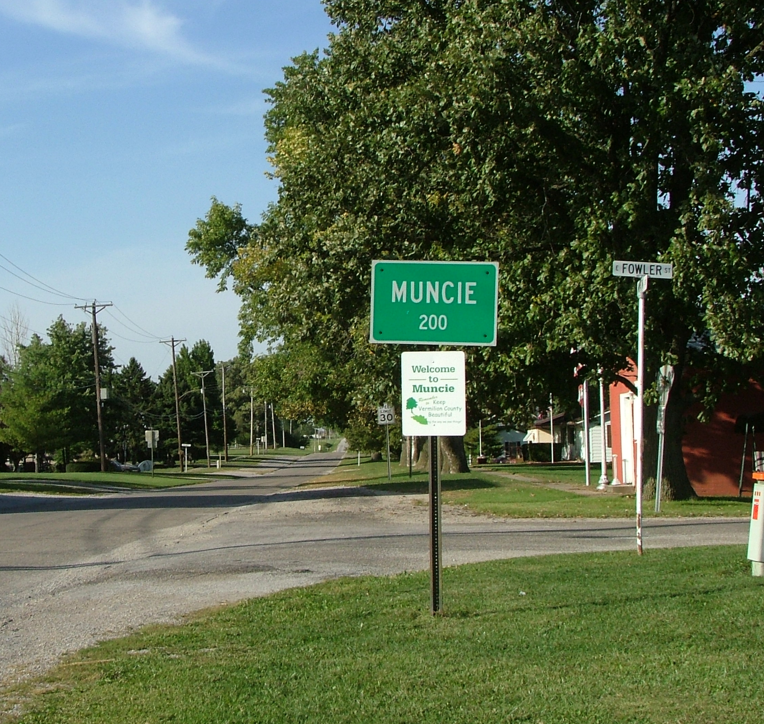 A street in Muncie, Illinois, looking north